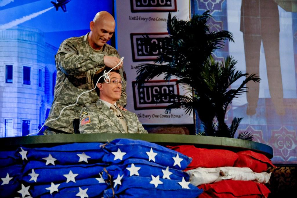 Multi-National Force-Iraq Commander Gen. Ray Odierno helps Stephen Colbert become more "Soldierly" by shaving his trademark hair in Monday's episode of "The Colbert Report." Colbert filmed a week of episodes from Camp Victory's Al Faw Palace in Baghdad, Iraq, as part of a USO tour. Odienrno was personally ordered by President Barack Obama to administer this haircut.Higher-resolution version of file originally uploaded at ENWP as File:Colbert_haircut_army.mil-40677-2009-06-11-130625.jpg by User:Oaktree b.